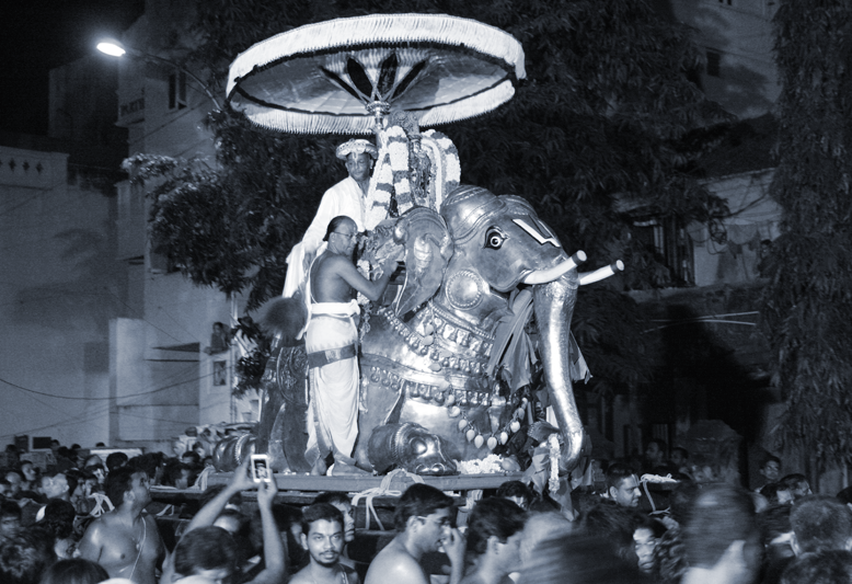 Photo taken during brahmotsavam at parthasarathy temple in 2013